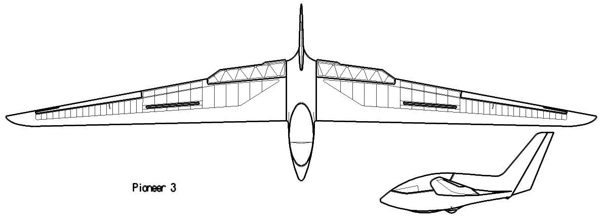 Marske Pioneer III Drawing